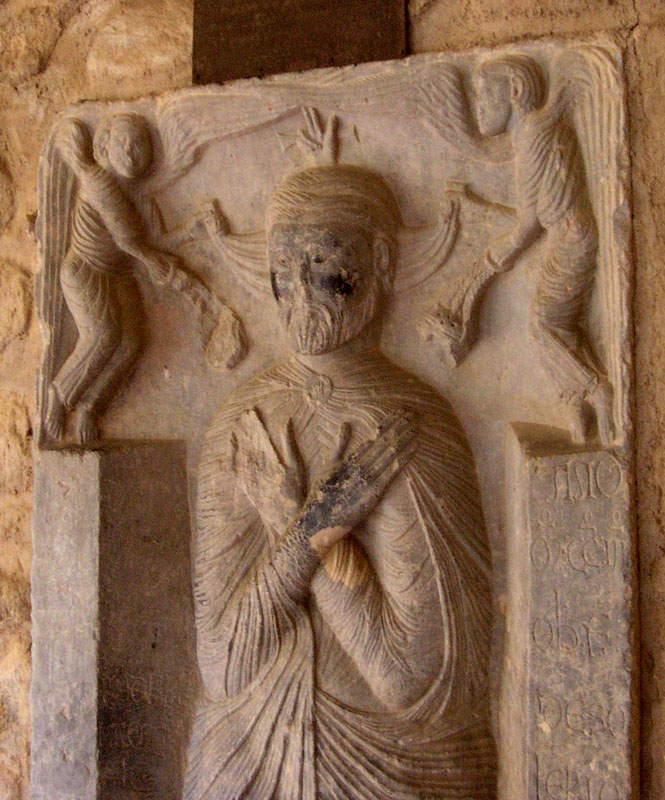 Cloister of Elna. Tombstone of Ferran del Soler. Ramon de Bianya